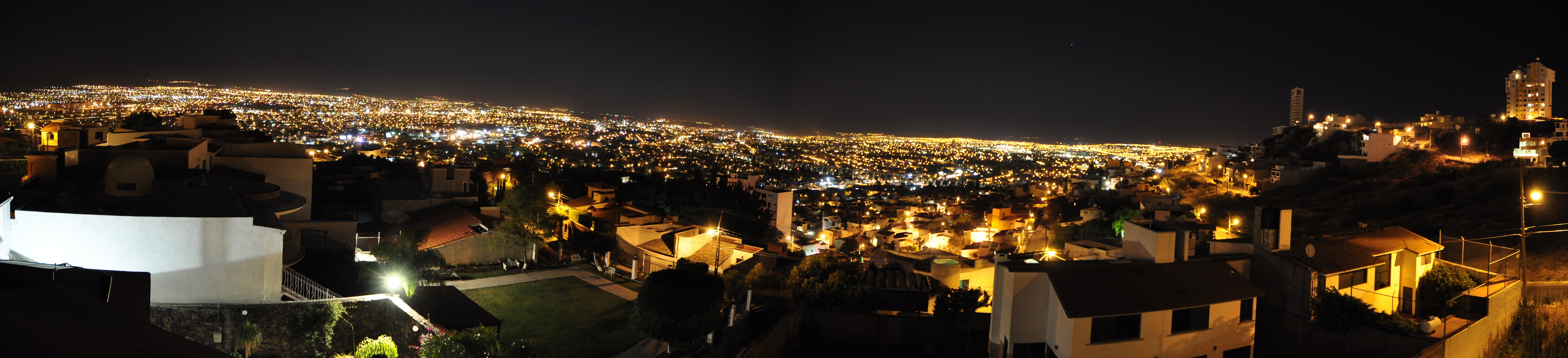 Panoramic view of the city of Santiago de Querétaro, Querétaro, Mexico